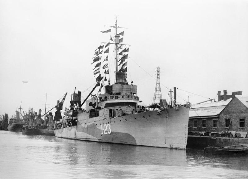 HMS CASTLETON, May 1942. Alongside a jetty.